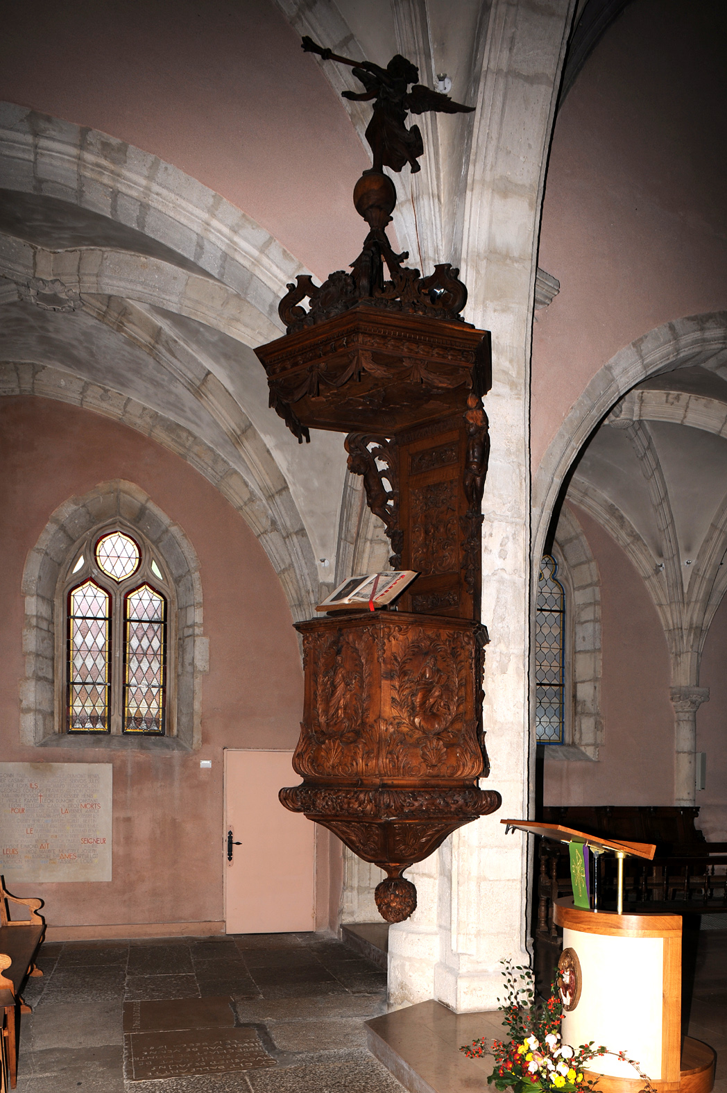 Church of Orchamps-Vennes, pulpit 17th century; department Doubs, France.